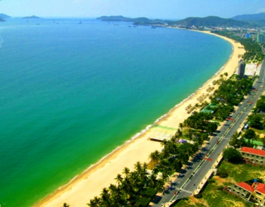 Full view of Nha Trang Bay at noon.